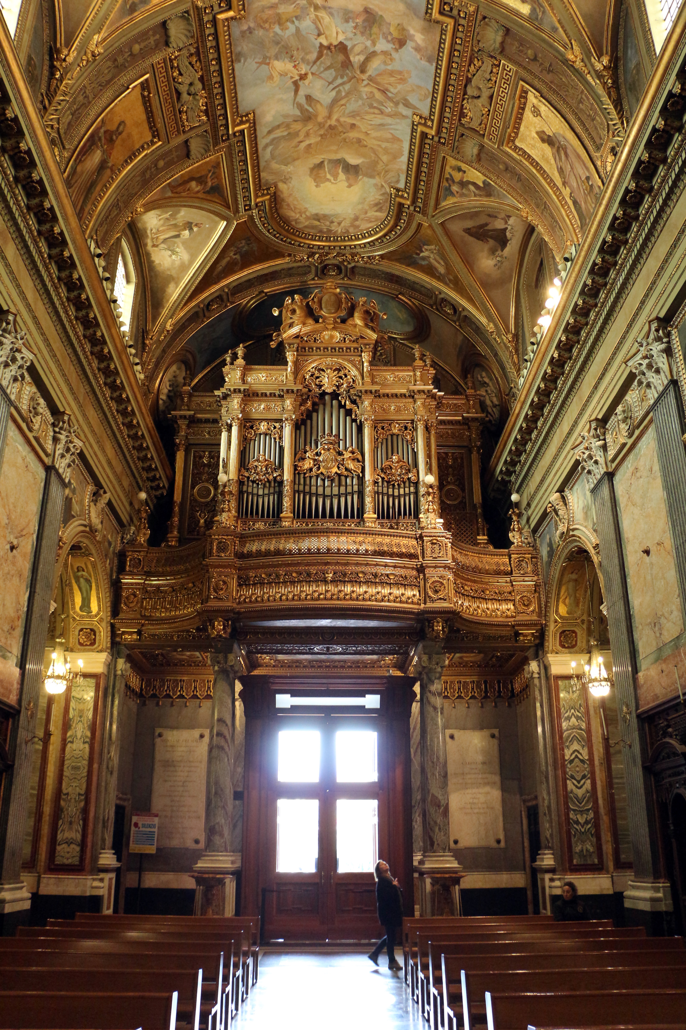 Beata Vergine del Rosario (Pompei) - Interior